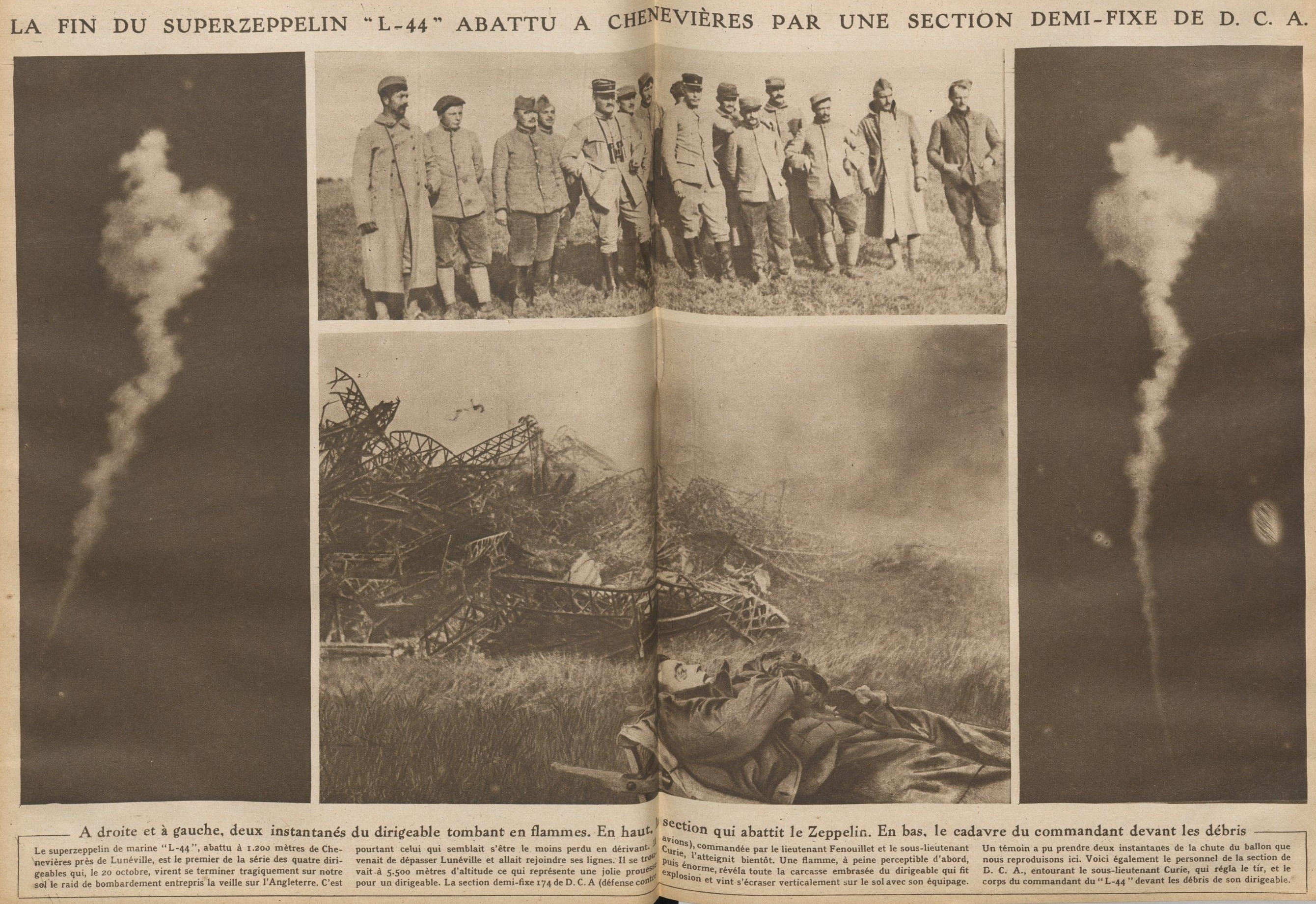 Photographs of the German airship L-44 slaughtered at Chenevière by the DCA (Defense against aircraft) when returning from a bombing raid on England. Photographs published in the weekly Le Miroir November 4, 1917. Approximate translation of the text : Zeppelin airship L-44 Navy was shot at 1 200 meters Chenevières near Luneville. (...) This is the first of four airships, which on October 20, ended tragically on French soil the bombing made ​​the day before in England. The L-44 had just passed Luneville and would join Germany. It was at 5 500 meters above sea level which is a great feat for an airship. DCA section commanded by Lieutenant Fenouillet and lieutenant Curie managed to touch. A fire broke out on board and made explosion before crashing vertically on the floor with his crew. A witness took photographs of left and right showing the fall of the airship. The top photograph shows the staff for the artillery section with the lieutenant Curie who set the fire. Here also the airship debris next to the corpse of the commander of the L-44.